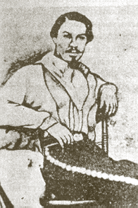 Pedro Jose Mendez Ortiz